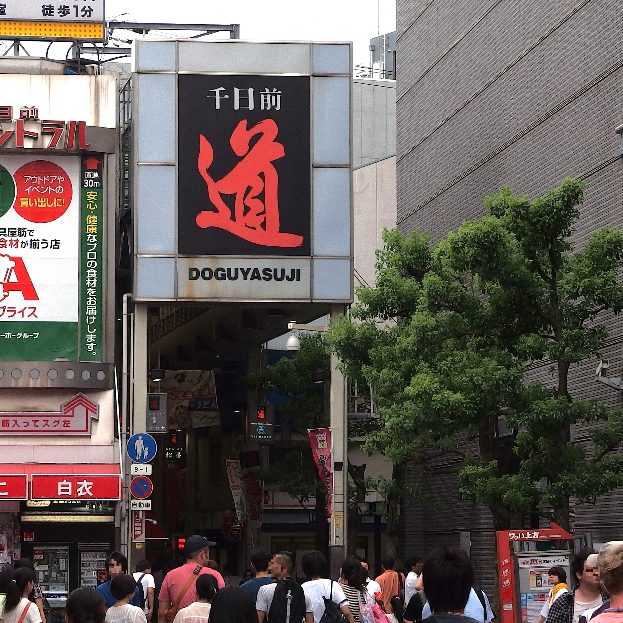 Sennichimae_Douguyasuji_Shotengai, Osaka,Osaka Prefecture, Japan